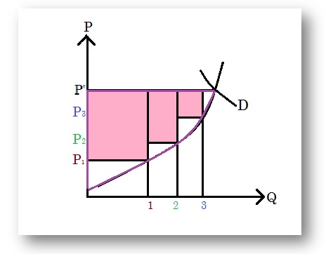 graph showing Producer Srplus